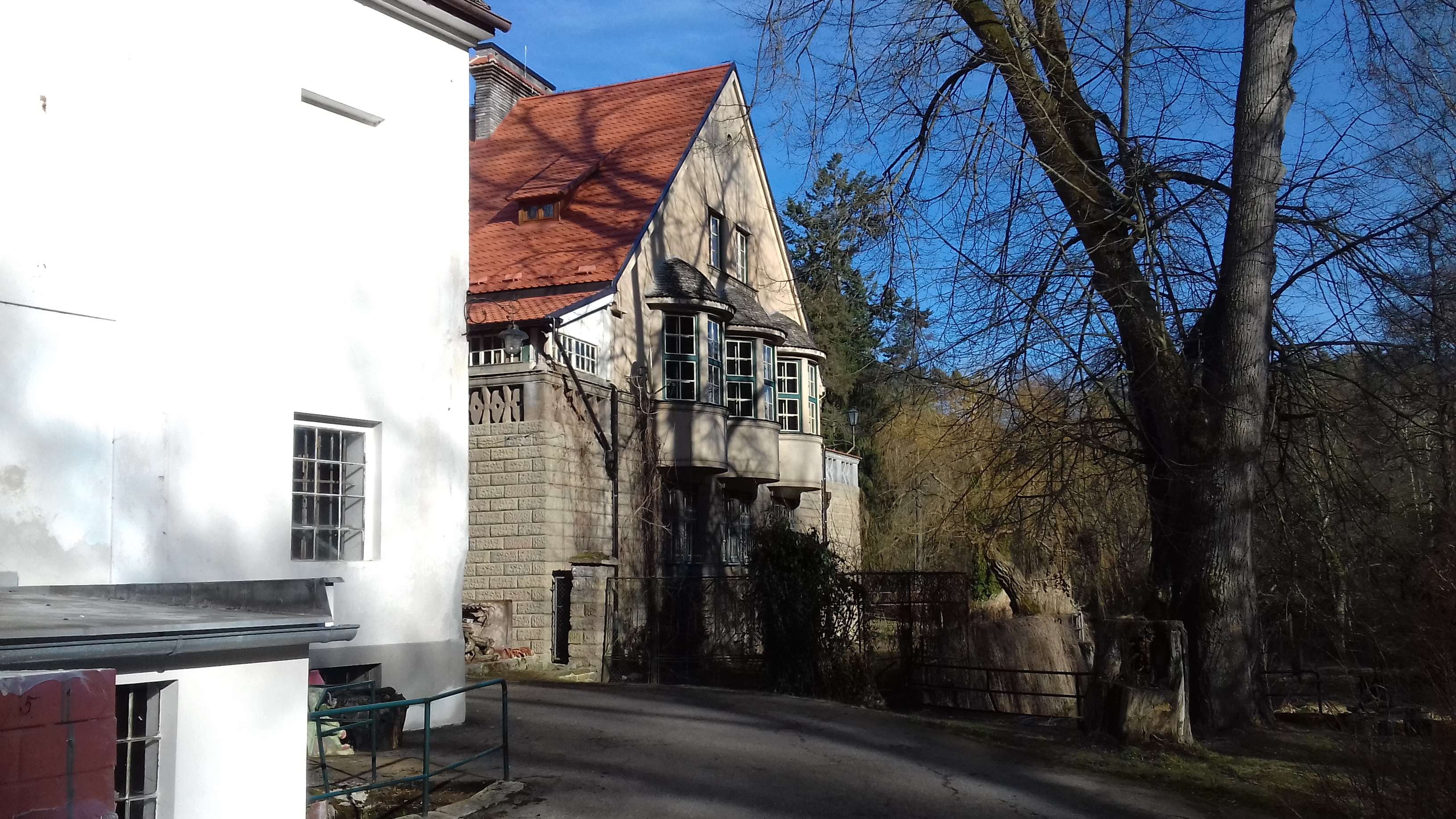 Vítův mlýn, village Dub, part of Kondrac, in Benešov District